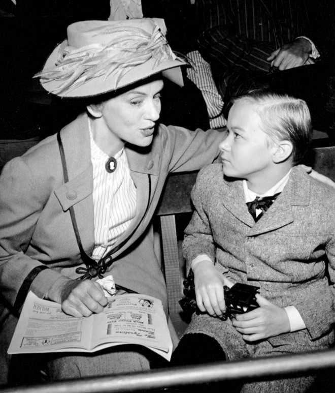 Publicty photo of Jessica Tandy and Paul Playdon from the television program Alfred Hitchcock Presents. This presentation is The Glass Eye.